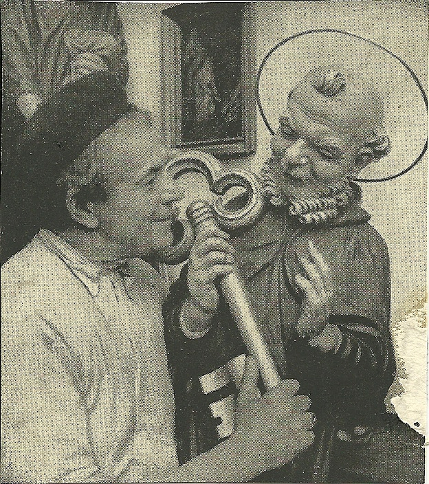 Vojtěch Sucharda and Saint Peter